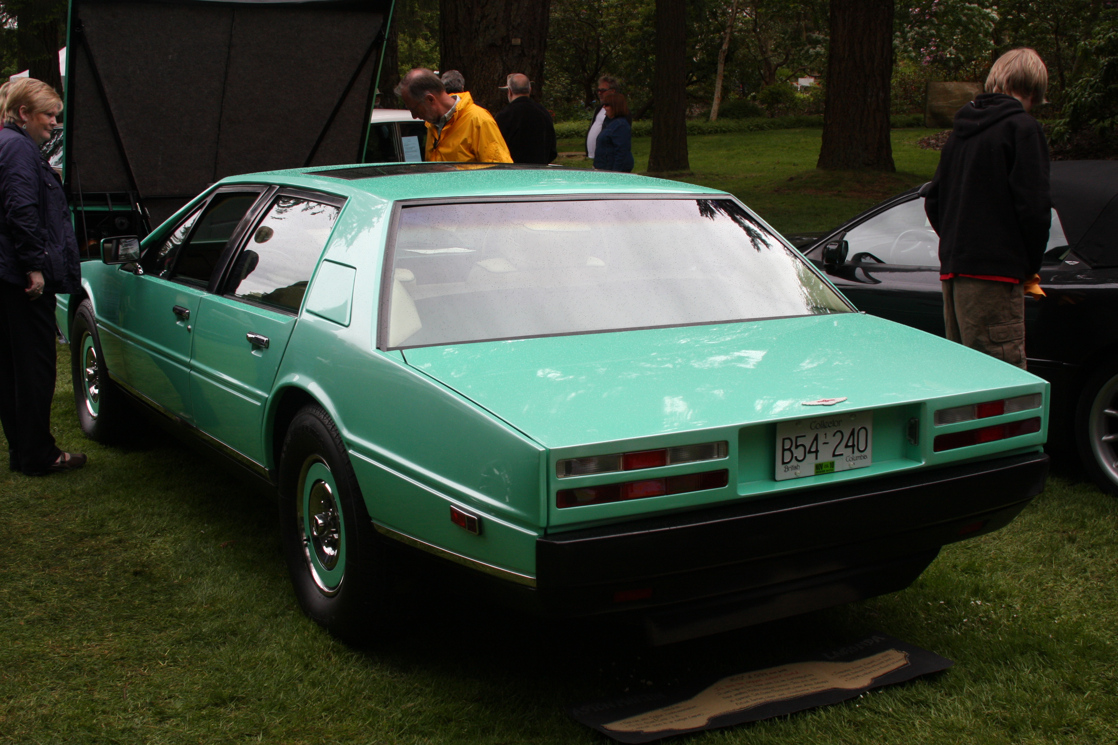 The fantastic super wedge Aston Martin Lagonda. Great to see someone keeping one is such fabulous condition.